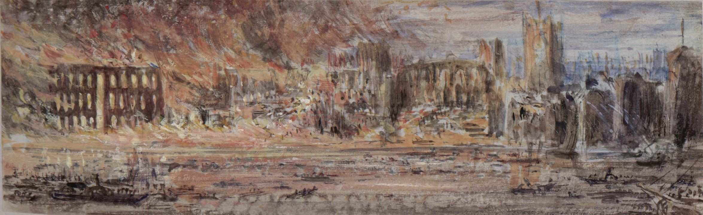 Examples of artwork on a variety of subjects and in a variety of styles by Francis Elizabeth Wynne from a sketchbook (ca. 420 drawings): mixed media, including watercolour, wash and, pen and ink.